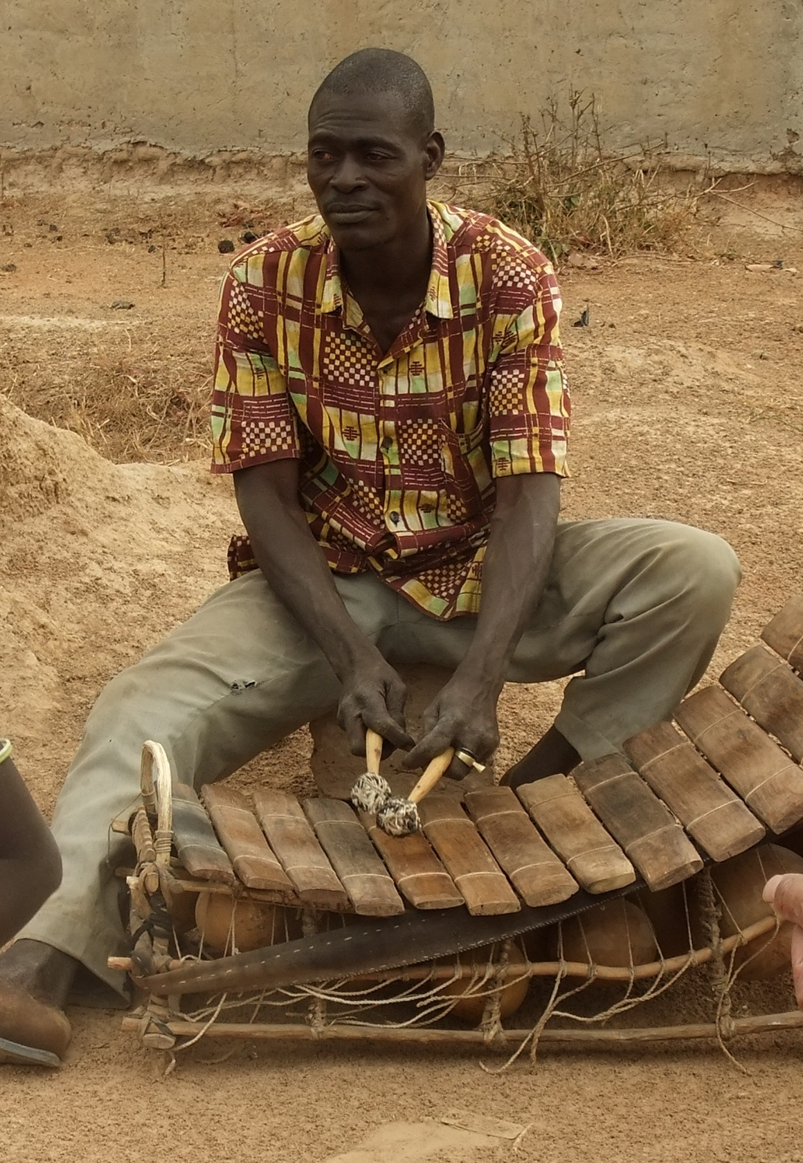 Bwaba griot, Boromo, Burkina Faso This is an image of "African people at work" from Burkina Faso